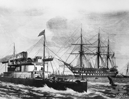 AWM Caption: PORT PHILLIP BAY, VIC. ARTIST'S IMPRESSION OF TWO SHIPS OF THE VICTORIAN NAVAL FORCE, CERBERUS (FOREGROUND) AND NELSON. THE ILLUSTRATION DEPICTS THE CERBERUS FLYING THE FLAG OF THE COLONY OF VICTORIA, ADOPTED IN 1870. SHE IS IN HER ORIGINAL CONFIGURATION WITH TWO MASTS AND FLYING DECKS EXTENDED OVER THE TURRETS FOR BOAT STORAGE. THE NELSON IS SHOWN AS SHE APPEARED BEFORE BEING CUT DOWN TO A SINGLE DECKER IN 1878.